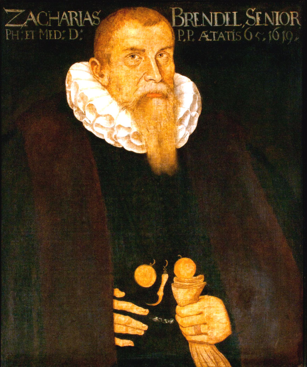 Zacharias Brendel the Elder (1553-1626) German philosopher, physicist, physician and botanist